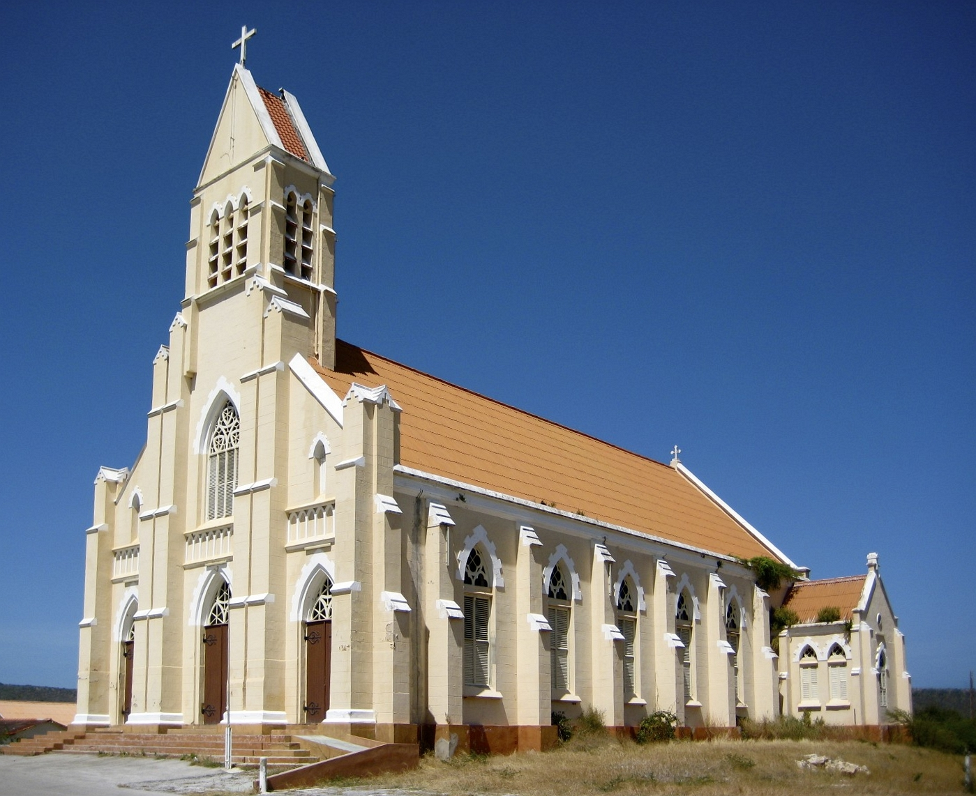 Photograph of the St. Willibrordus Church in Curaçao